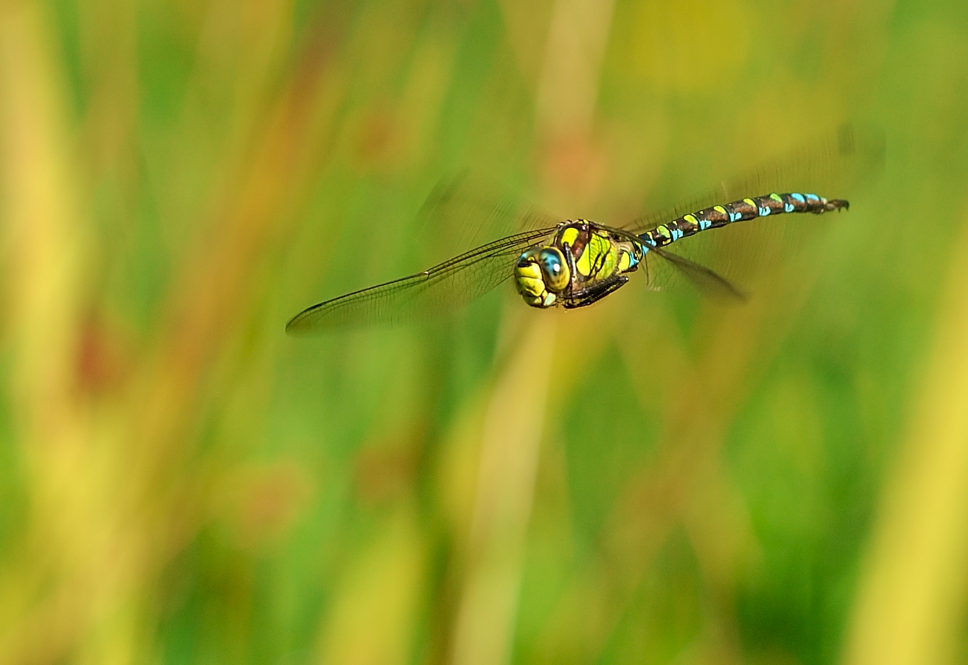 Aeshna cyanea male in flight